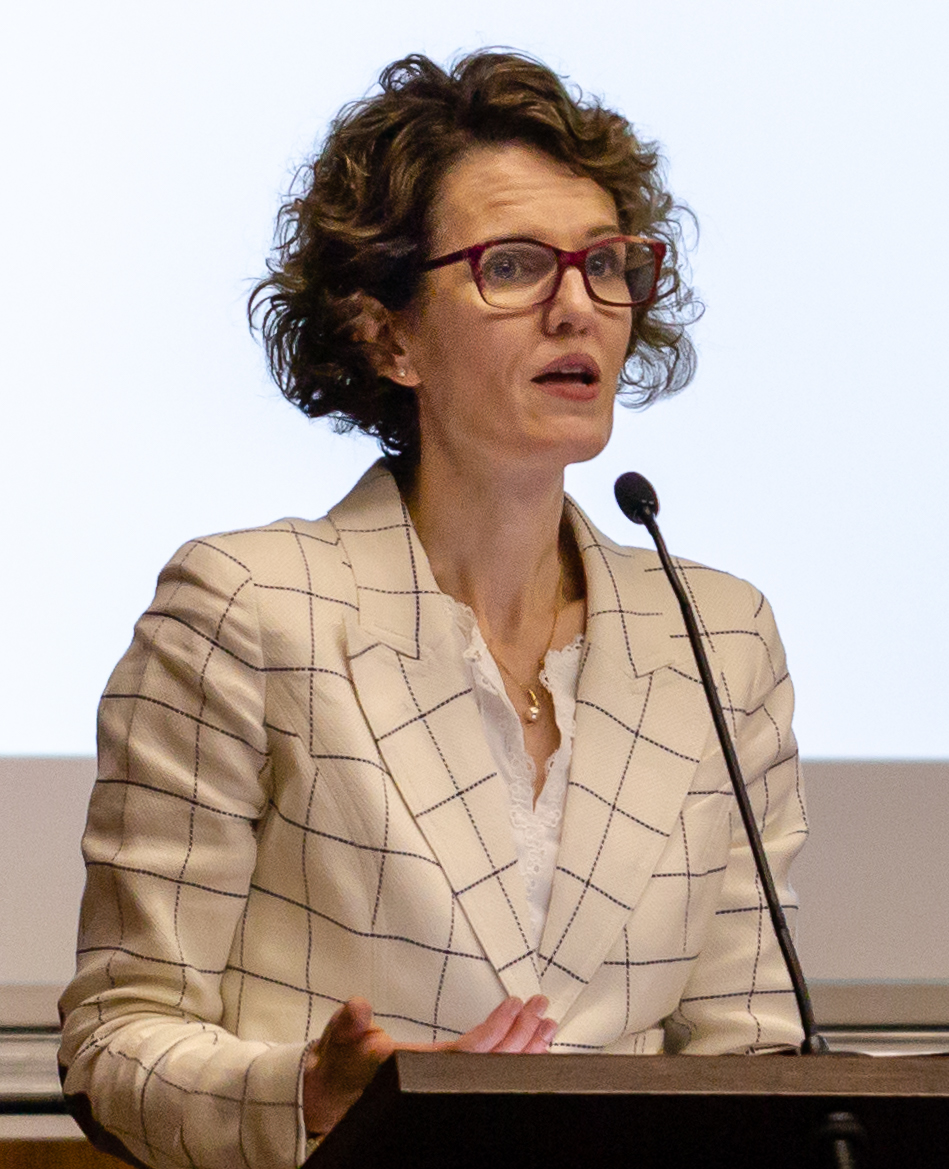 “Financial Citizenship: Experts, Publics, and the Politics of Central Banking”. Keynote speech by Annelise Riles, Professor at Cornell Law School. Inaugurating conference of Positive Money Europe in Brussels (23 May 2018).